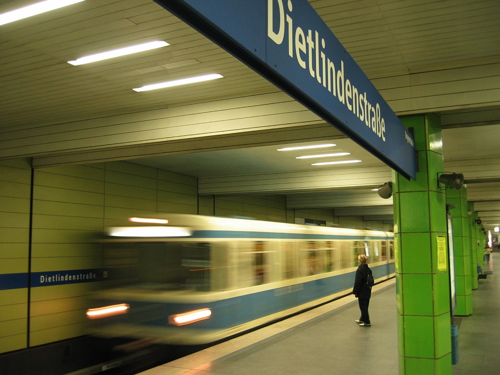 Munich subway station Dietlindenstraße (U6)